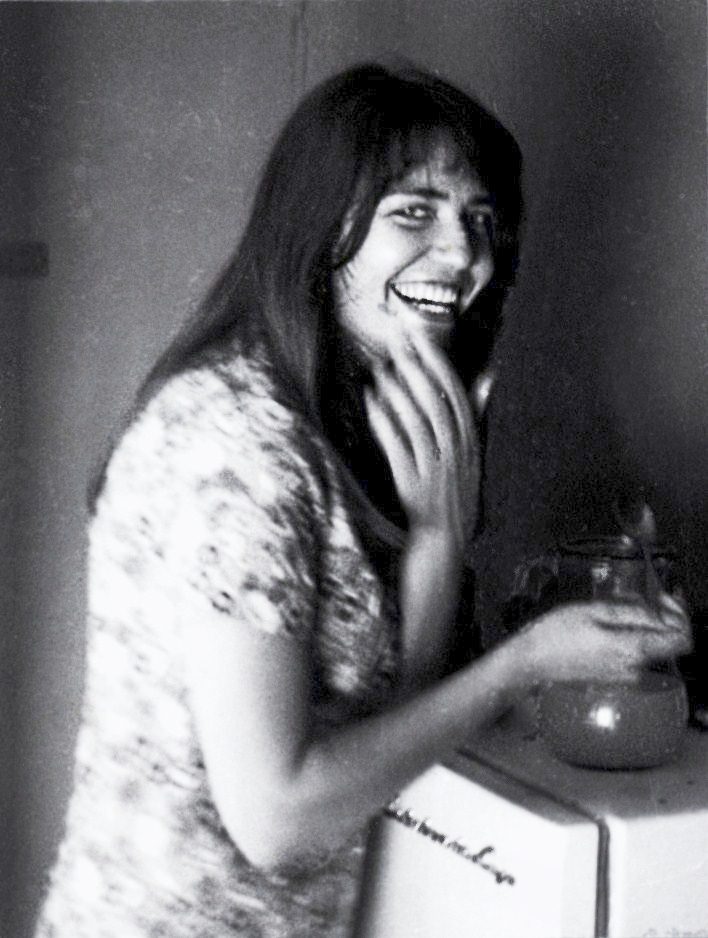 Elisabeth Käsemann, German sociologist. Víctim of the Argentinian dictatorship